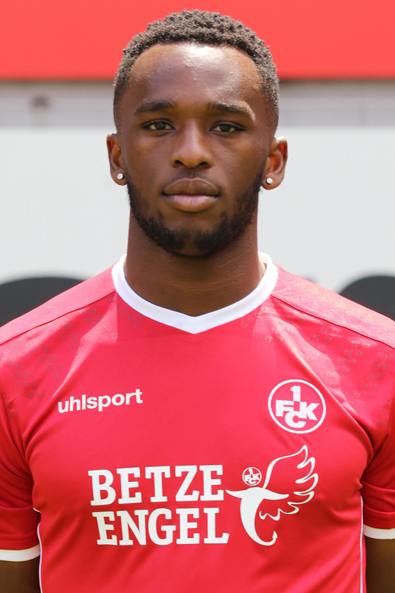 Osayamen Osawe (Nr. 35) - 1. FC Kaiserslautern, Saison 2017/18